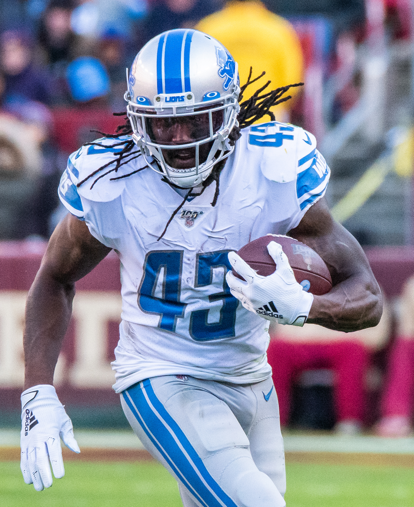 In 2019